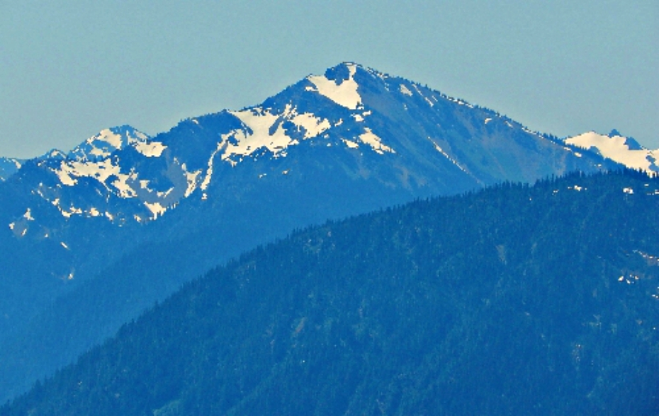 Mount Dana seen from Hurricane Ridge with long lens. Olympic National Park.